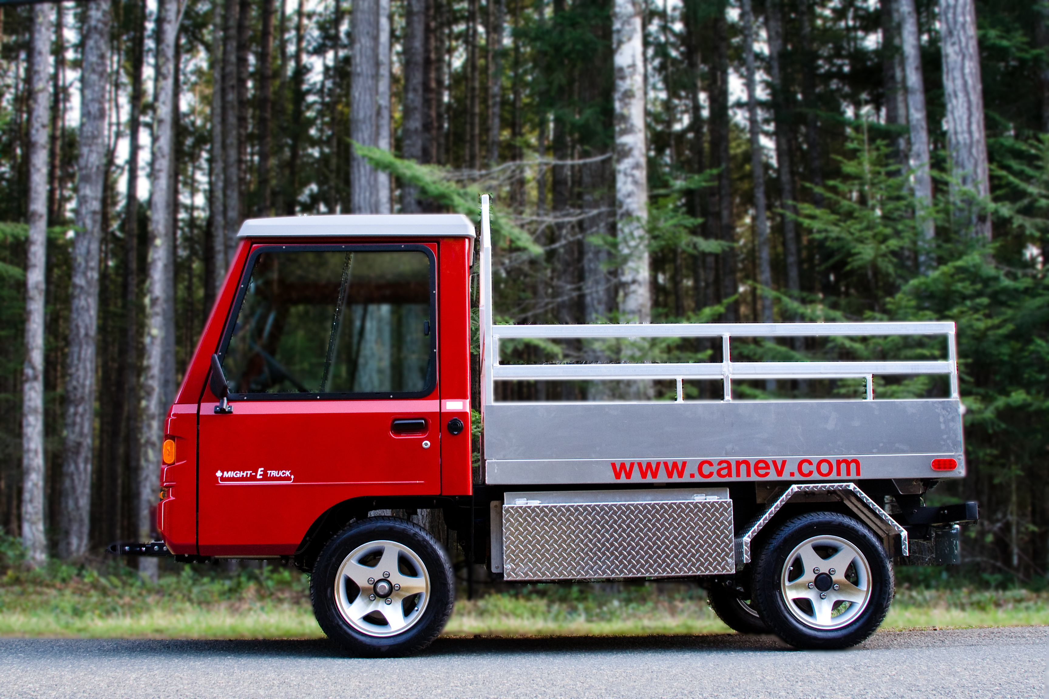 The picture shows a side profile of a red Might-E Truck in front a forest background.